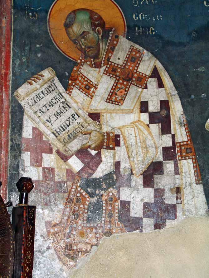 Fresco of St. John Chrysostom, lower register of sanctuary in Church of the Theotokos Peribleptos in Ohrid, Macedonia